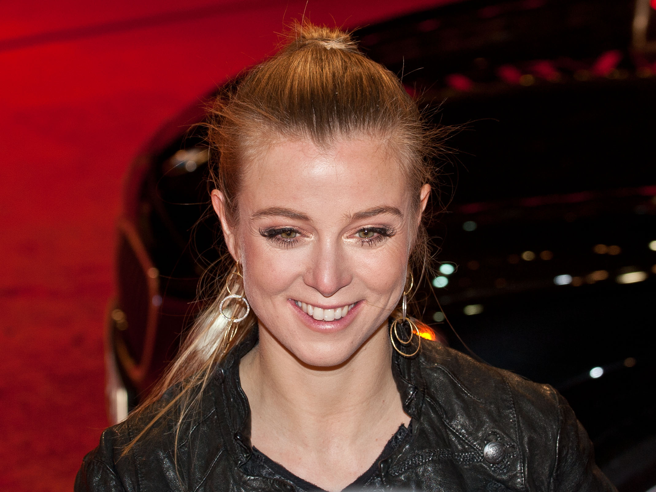 German TV Host Nina Eichinger at the Berlin Film Festival 2013